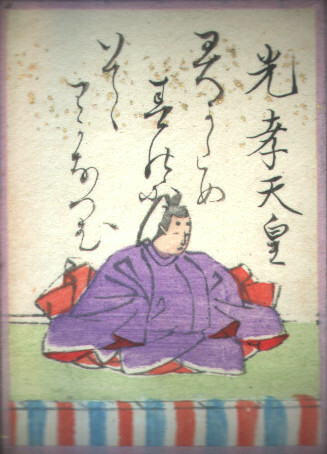 A portrait of Emperor Kōkō; illustration from an uta-garuta playing card for Hyakunin Isshu, created in the Edo period.